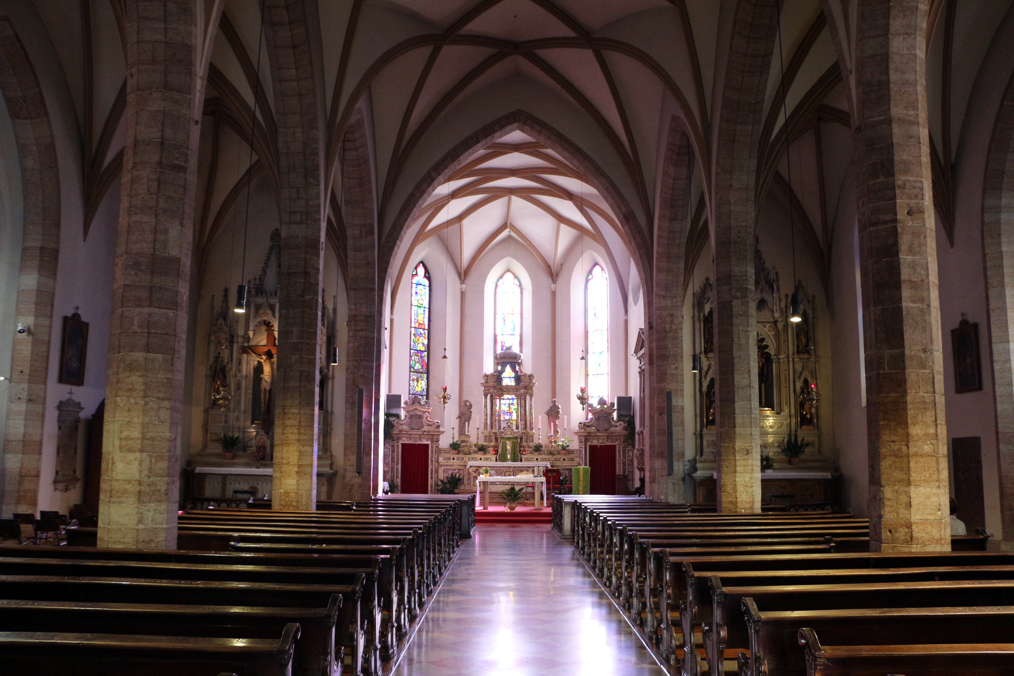 Churches in Trento